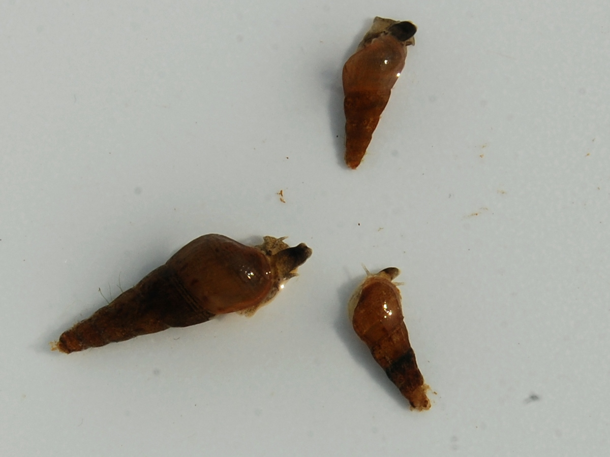 Sulcospira testudinaria juvenile, the largest one is ca. 21 mm height. From Ciliwung River, Bogor, West Java, Indonesia.